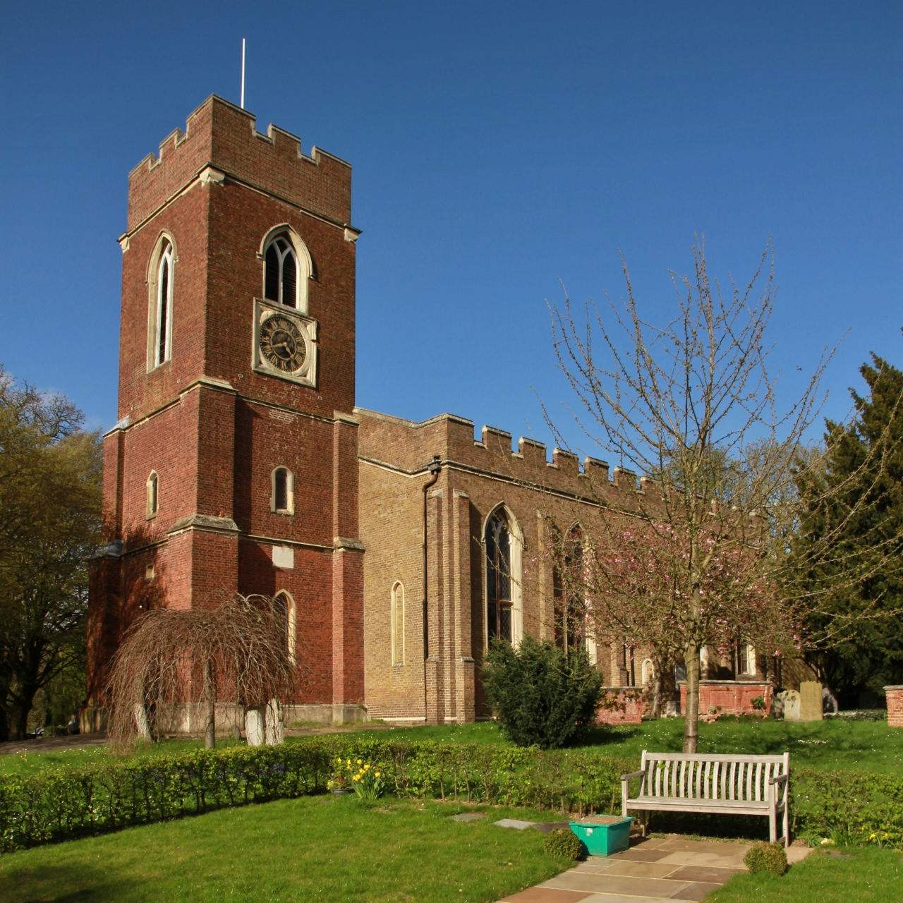 St Mary's parish church, Staines, Middlesex (now Surrey), seen from south-southwest